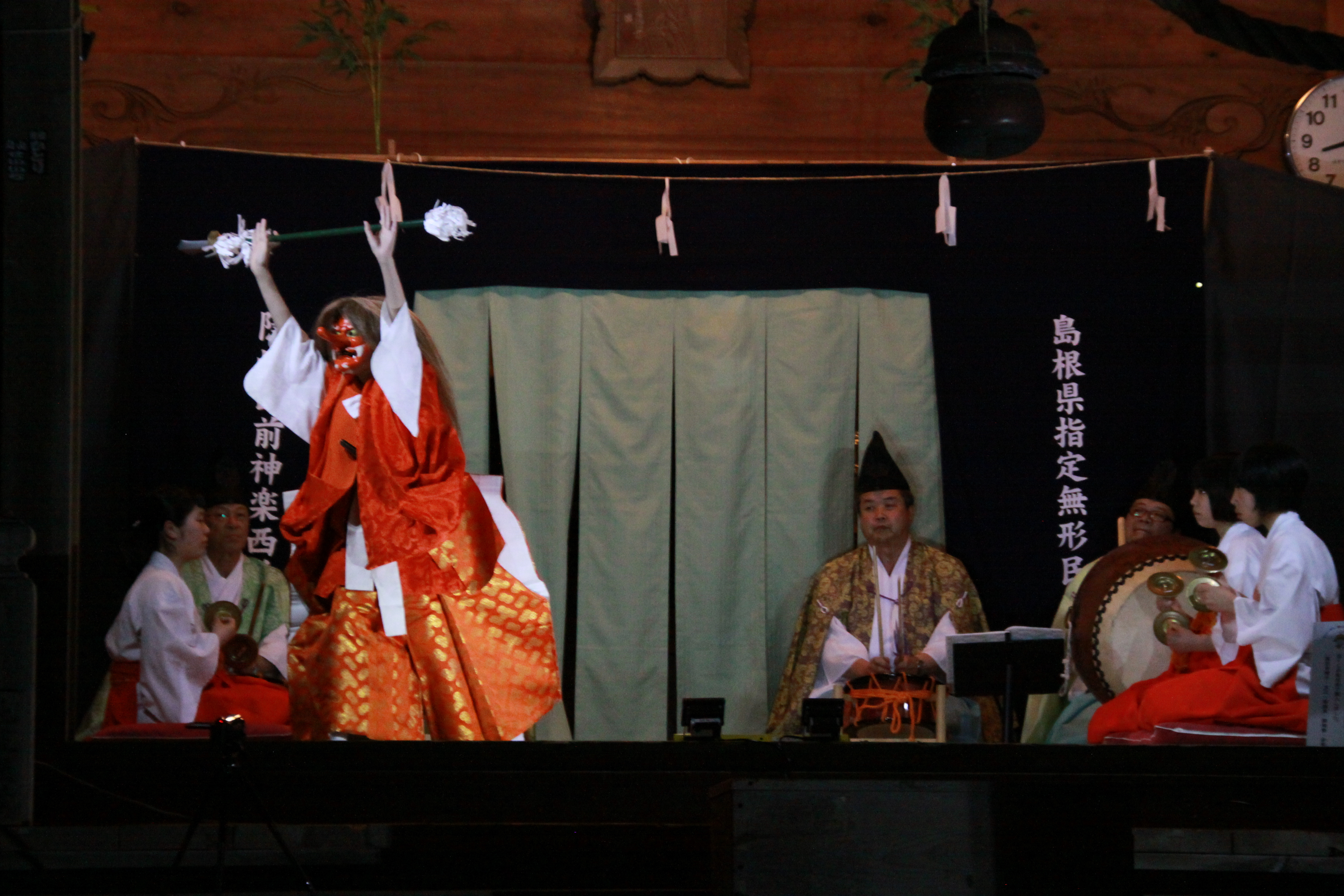 Oki-Dozen Kagura, Yurahime Shrine, Nishinoshima